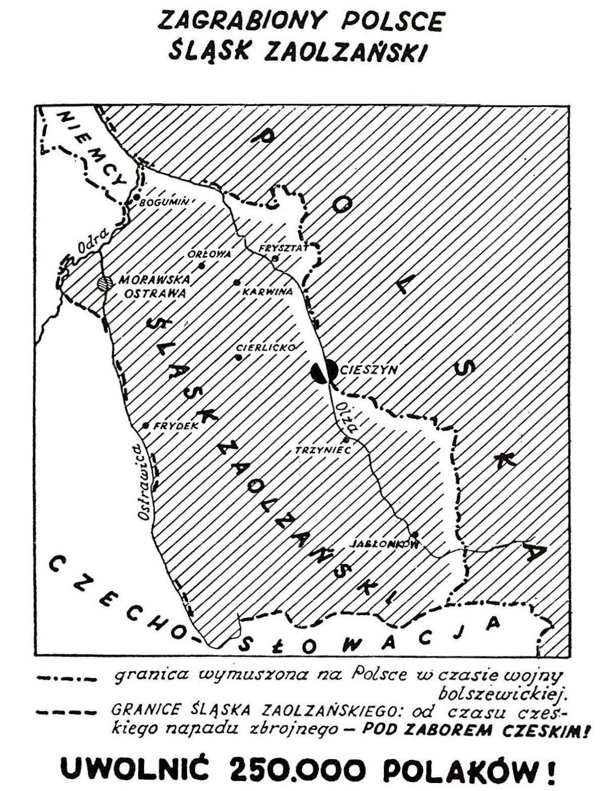 Polish leaflet from the interwar period calling for liberation of Poles living in Zaolzie